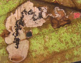 Antispila ampelopsifoliella